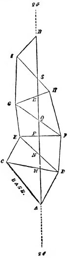 An illustration (triangulation image from Chapter VIII) from Jules Verne's novel "The Adventures of Three Englishmen and Three Russians in South Africa" (1870) drawn by Jules Férat.